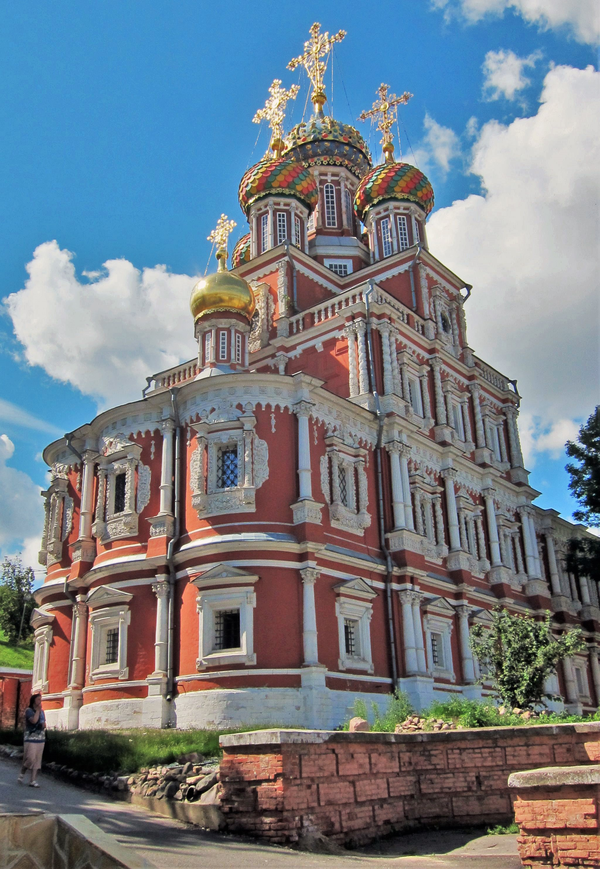 Church of the Nativity of the Theotokos in Nizhny Novgorod on Rozhdestvenskaya (former Mayakovskovo) Street, 34, and Suyetinskaya Street, 23